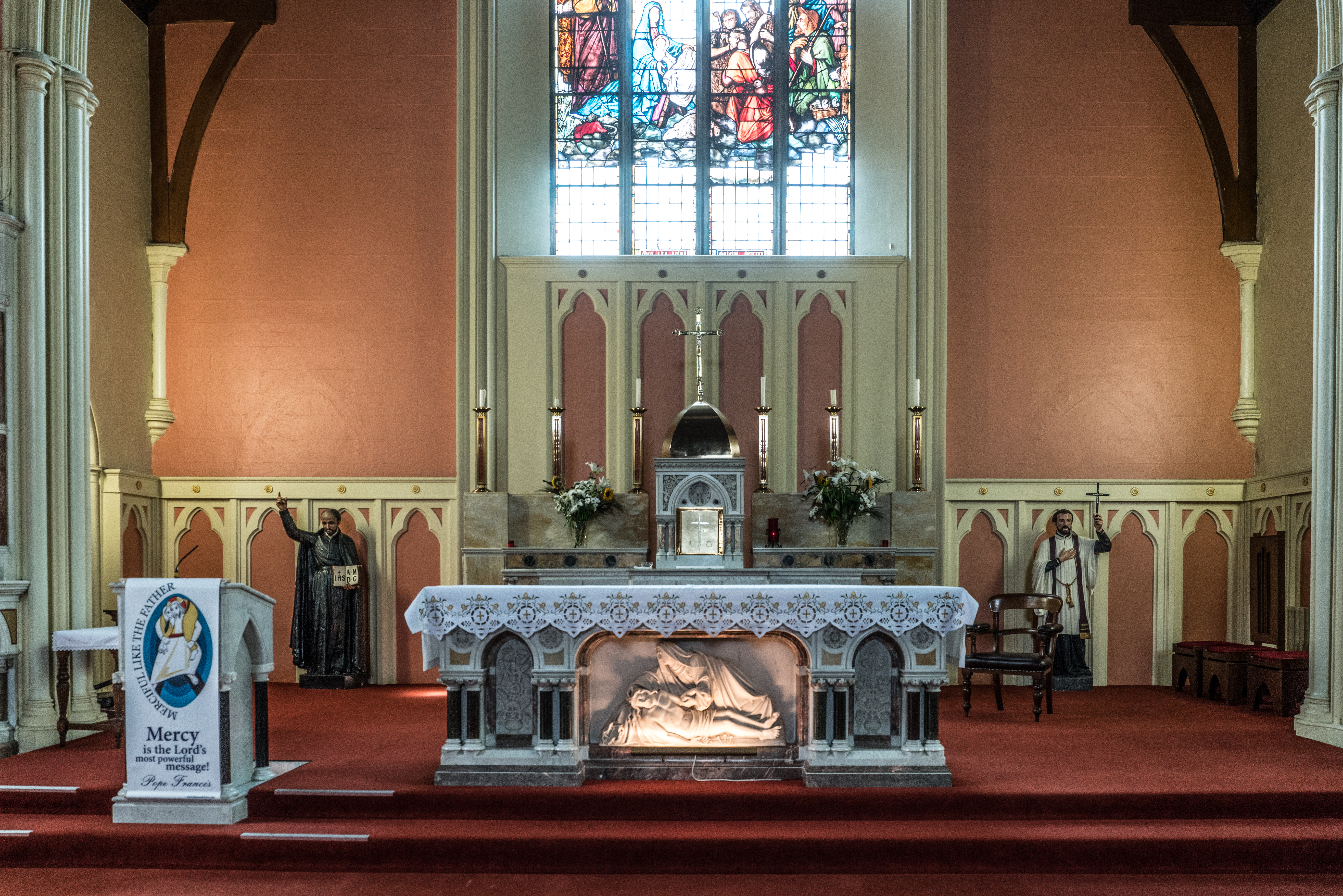 Sanctuary or chancel of the Jesuit church dedicated to St Ignatius in Galway.